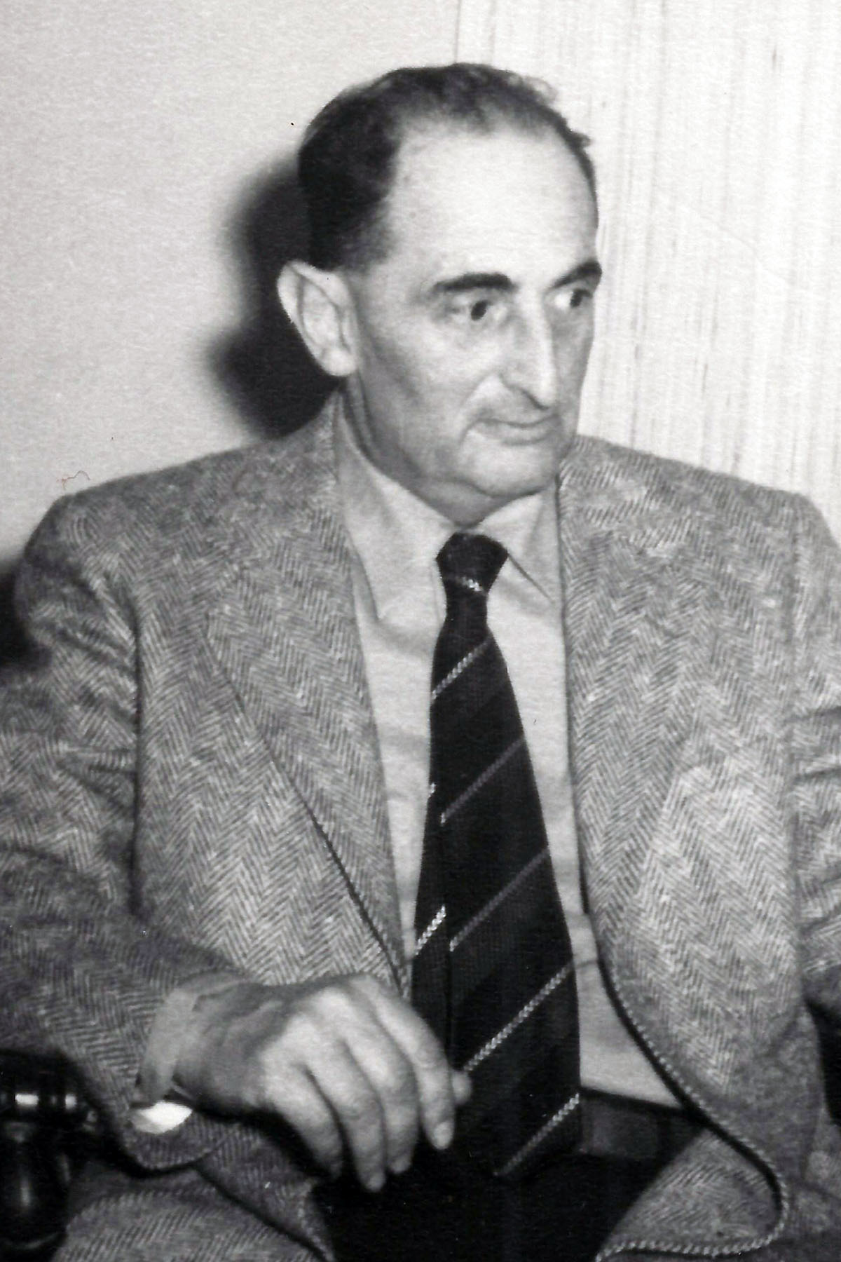 Picture of Henry Winterfeld. For use on his bio page.